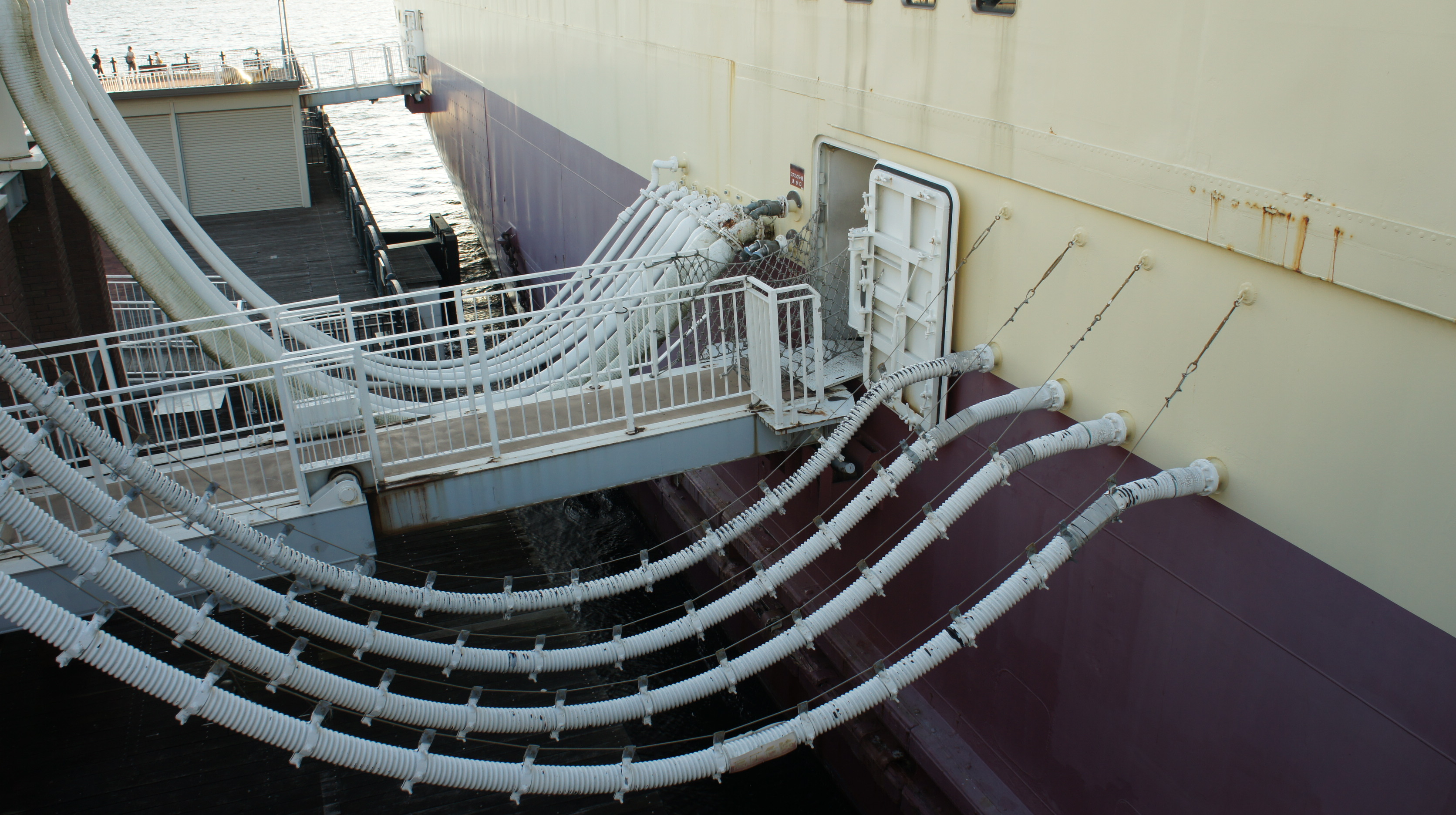 Cables and Pipes connected to the portside of Yotei-maru(IMO 6512275) (Sep. 2011)